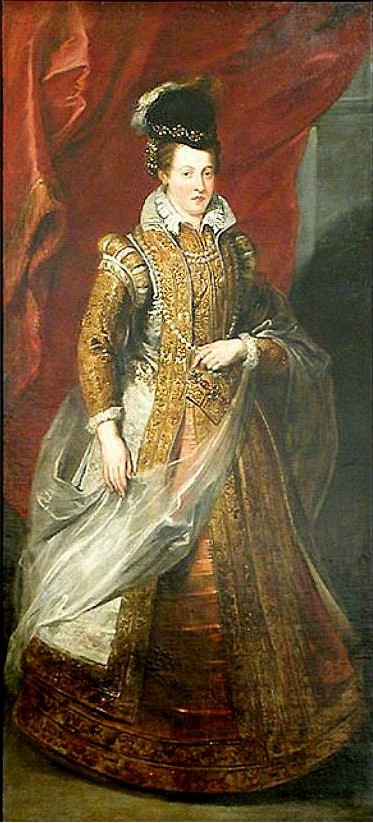 Portrait of Joanna of Austria, Grand Duchess of Tuscany. The model, or overall design, for this portrait goes back to a painting by Alessandro Allori that was then copied by Giovanni Bizzelli. Part of a series of 21 paintings illustrating the life of Marie de' Medici. Pendant of File:Francesco medici rubens.jpg.